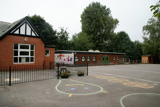 Whitegate Church of England Primary School